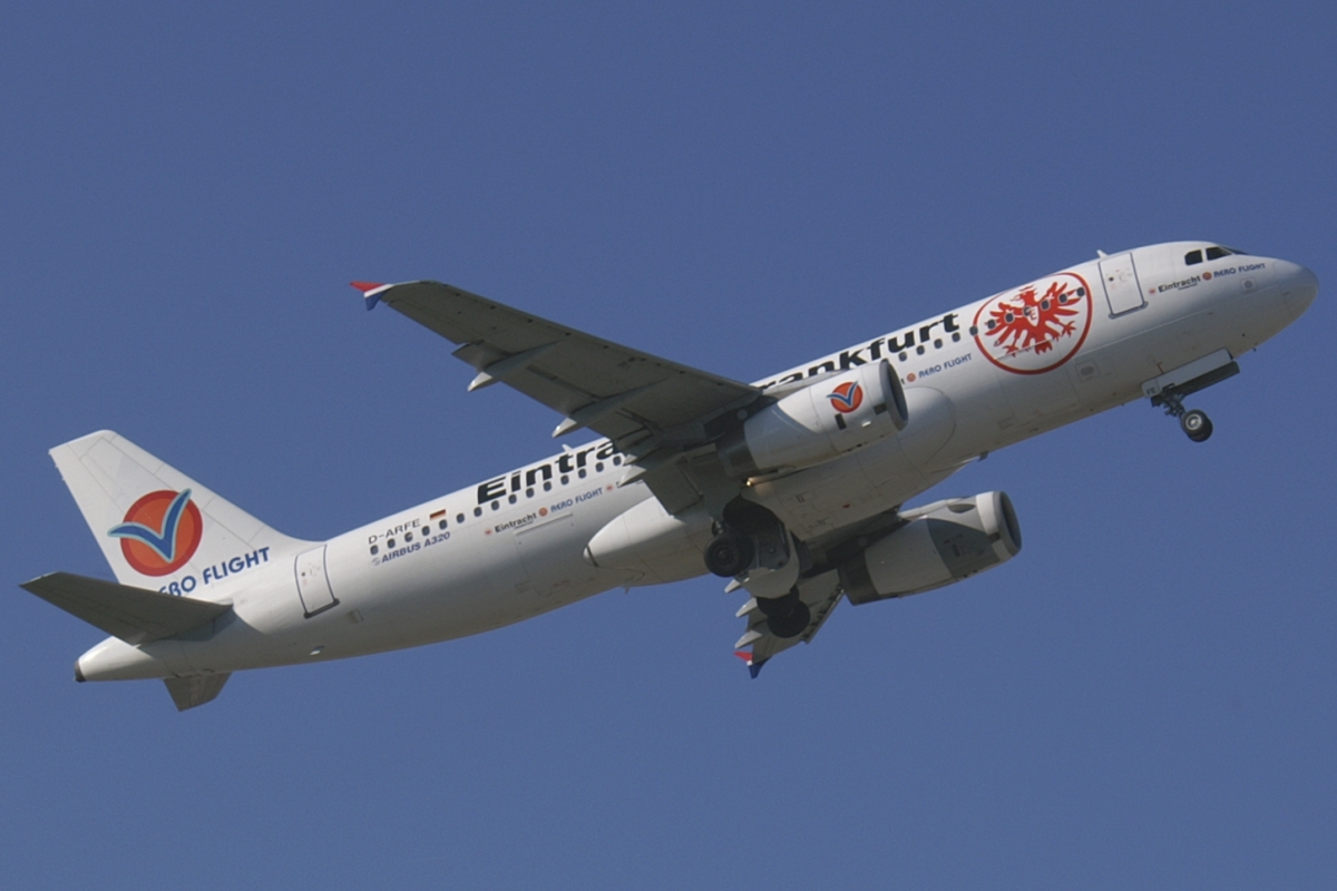 Aero Flight Airbus A320-232 D-ARFE at Stuttgart Airport